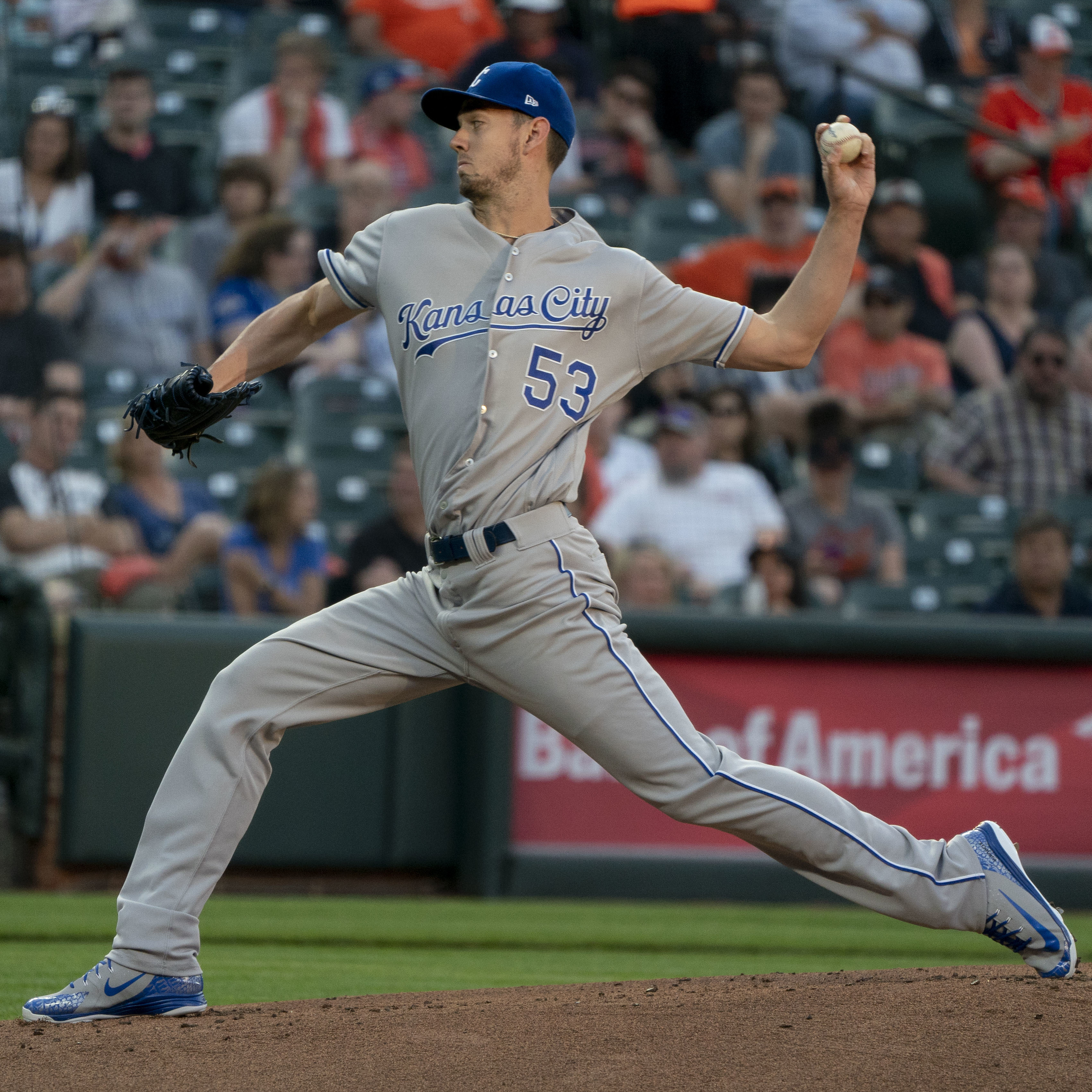 Eric Skoglund of the Kansas City Royals during a game against the Baltimore Orioles at Oriole Park at Camden Yards on May 9, 2018 in Baltimore, Maryland.